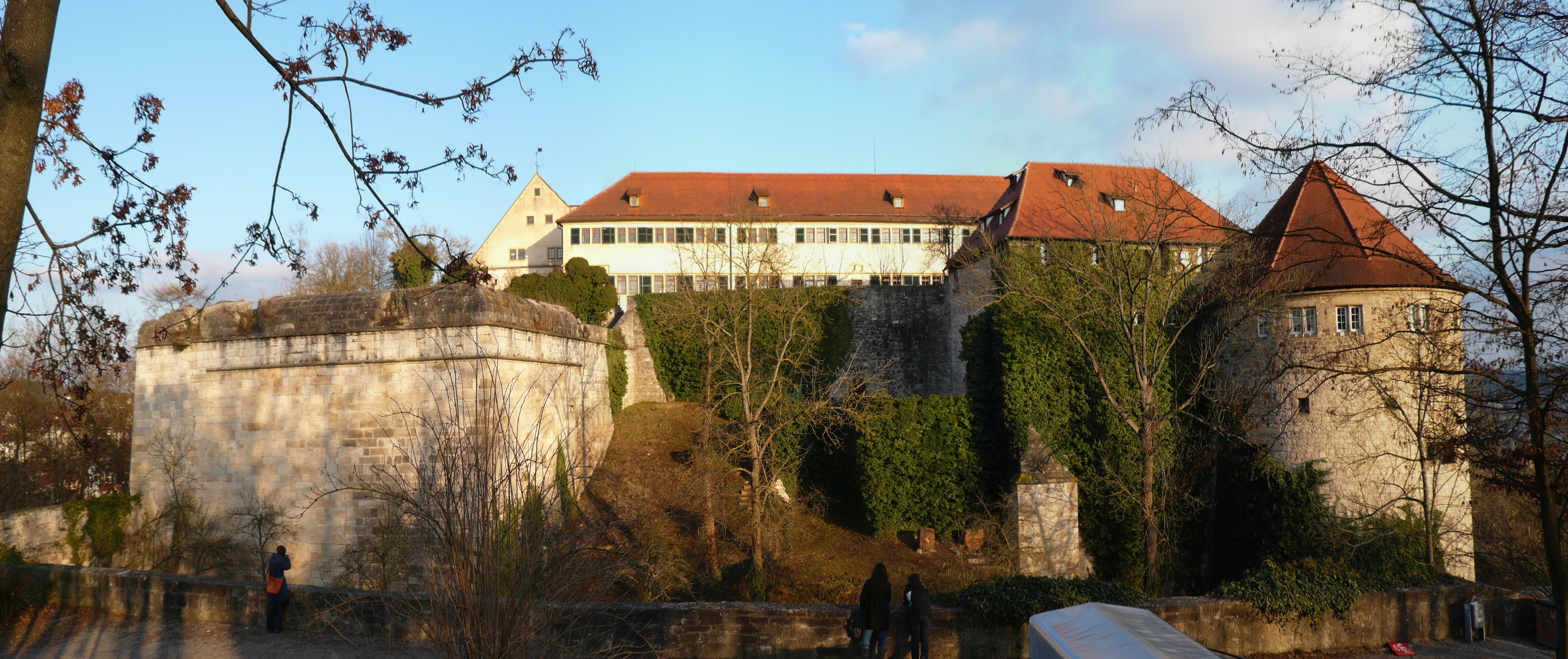 Tuebingen castle from West side